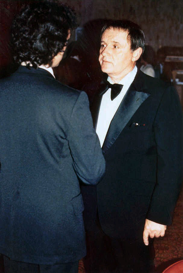 Rod Steiger at the premiere of Sylvester Stallone's movie F.I.S.T., April 1978